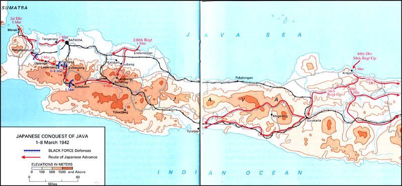 Sourced from: Caption: Japanese Conquest of Java 1-8 March 1942